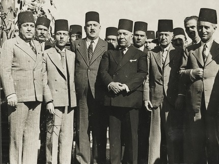 Arab notables at the Cairo Railway Station. From left to right: Mirza Rafi Meshki of Iran, Mohamed Ali Eltaher of Palestine, Nasib Bakri of Syria, Mohamed Allouba Pasha of Egypt and Amin al-Tamimi of Palestine